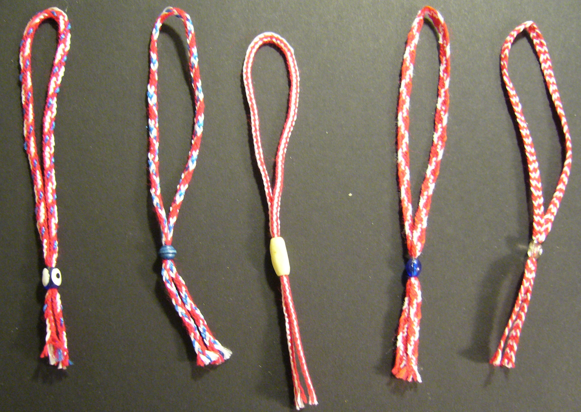 Martenitsa, or Pijo and Penda, a Bulgarian tradition, celebrating the spring arrival. See also: Martenitsa. Alt. spellings: Martenitza, Pizho and Pendo, Martenitsi, Martenichki, Martenichka, Martenica.